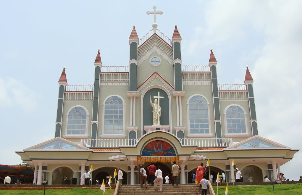 Most Holy Redeemer Church (Beltangady)